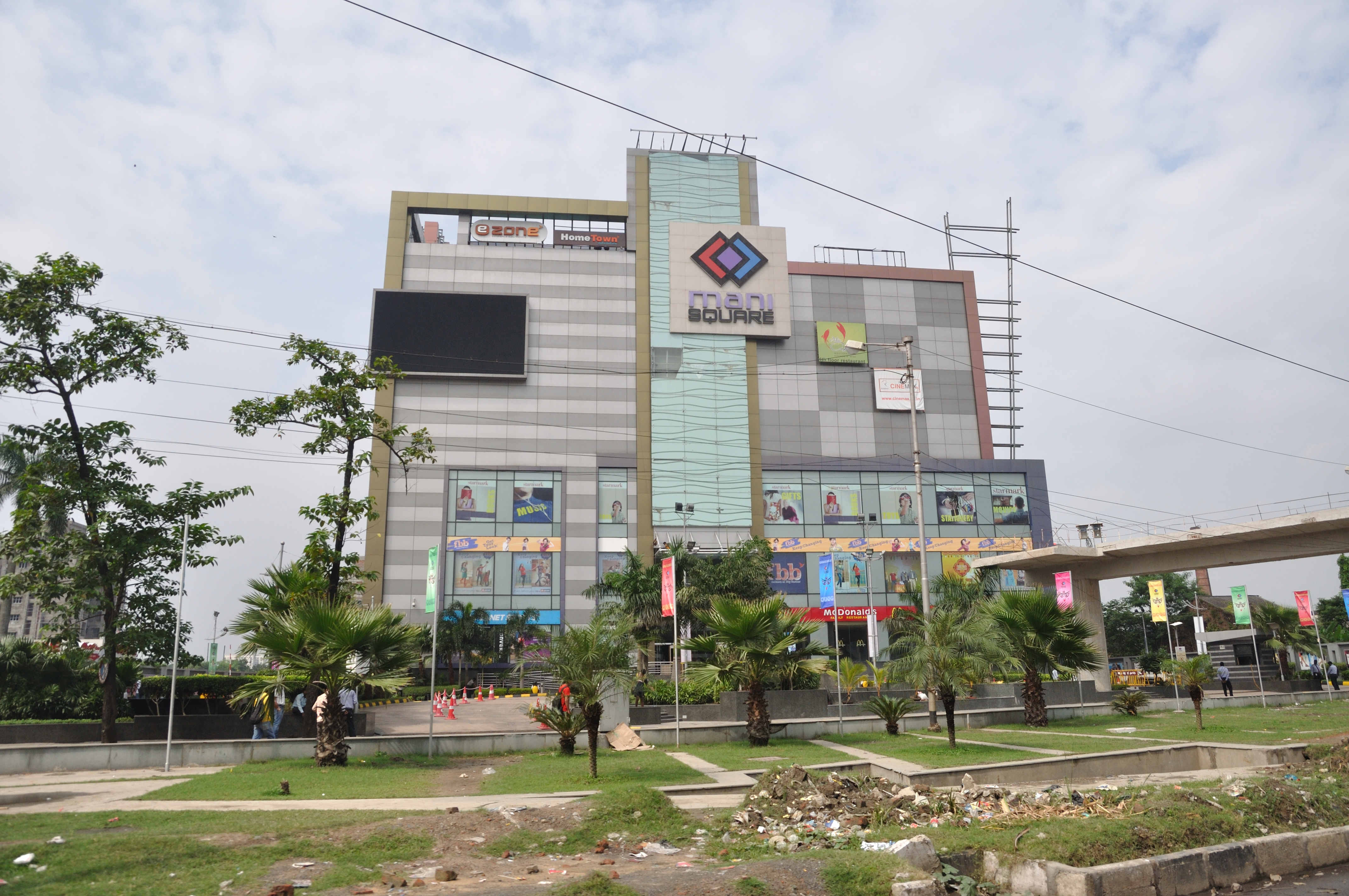 The Mani Square shopping mall on the Eastern Metropolitan Bypass.